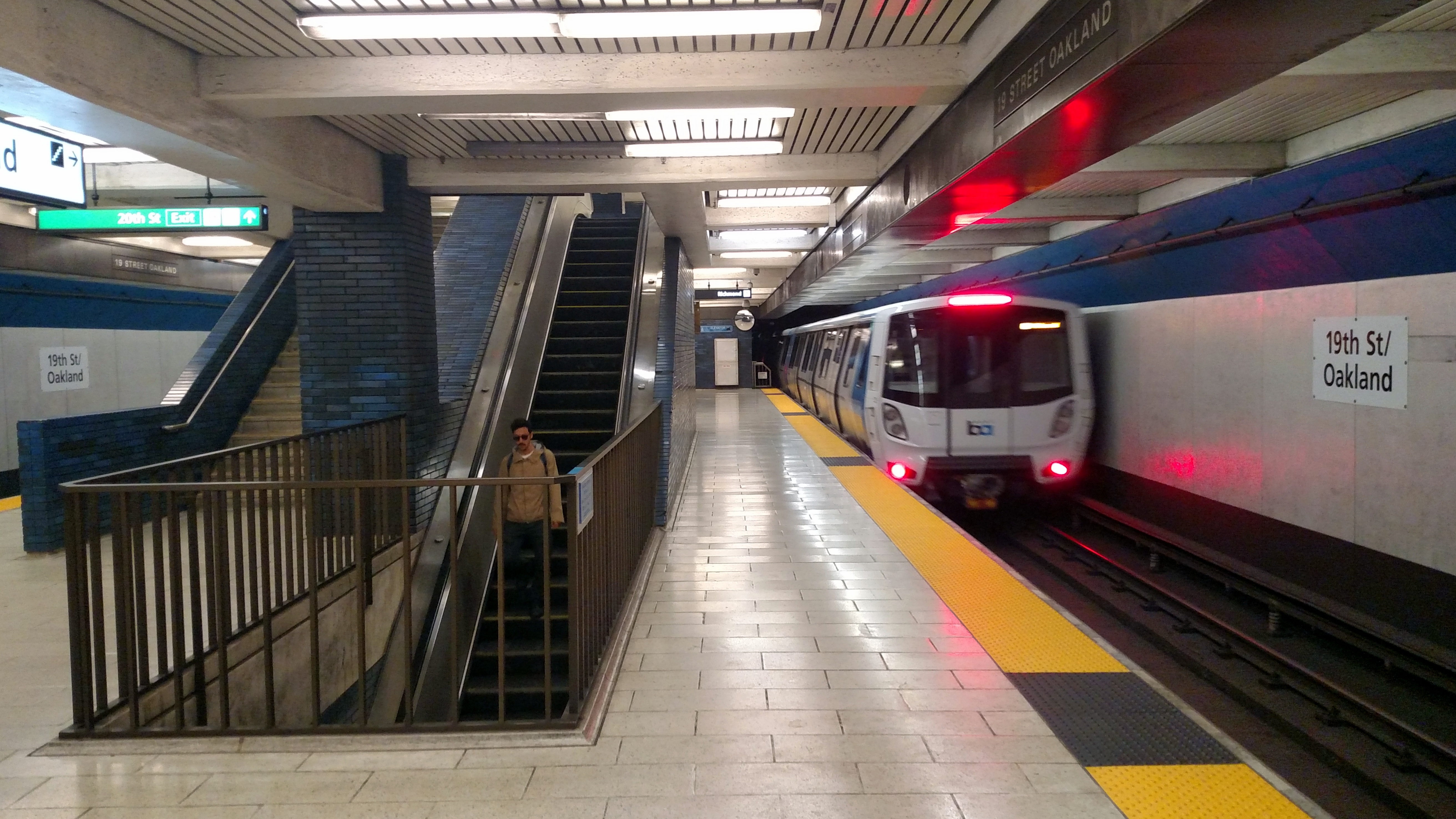 New BART train at 19th Street Oakland station in March 2018